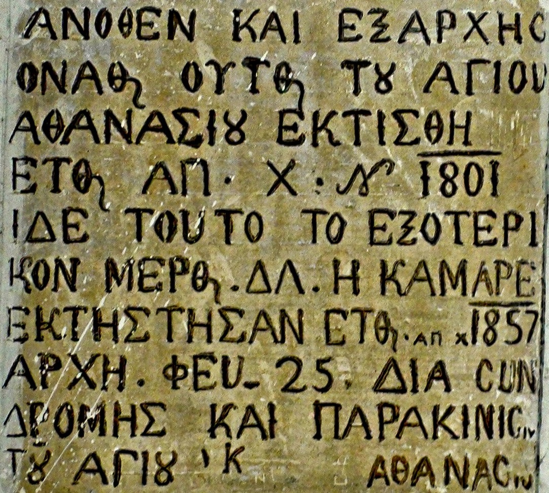 Agios Athanasios Church, Kriva Inscription